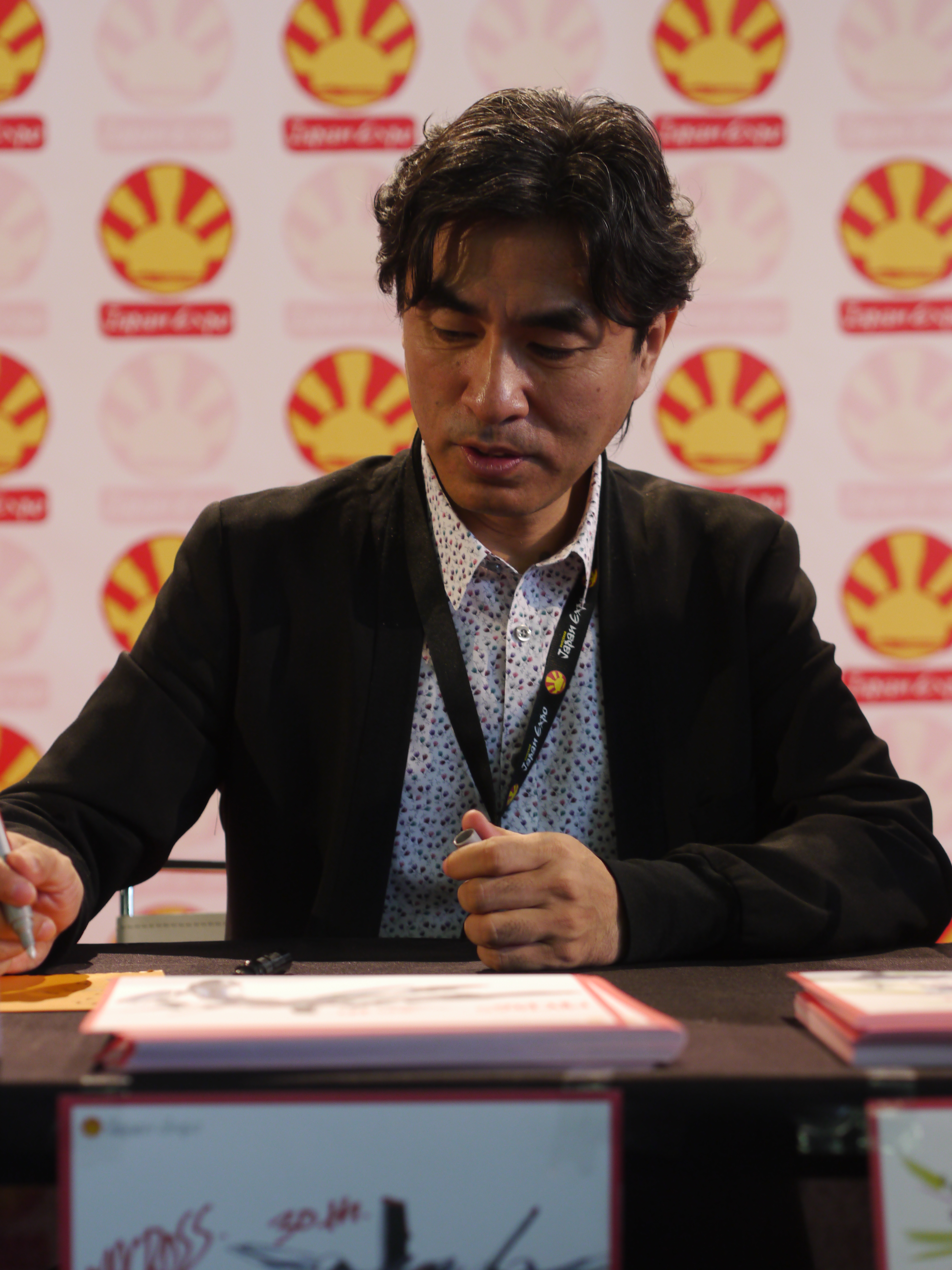 Japan Expo Festival, 14th impact